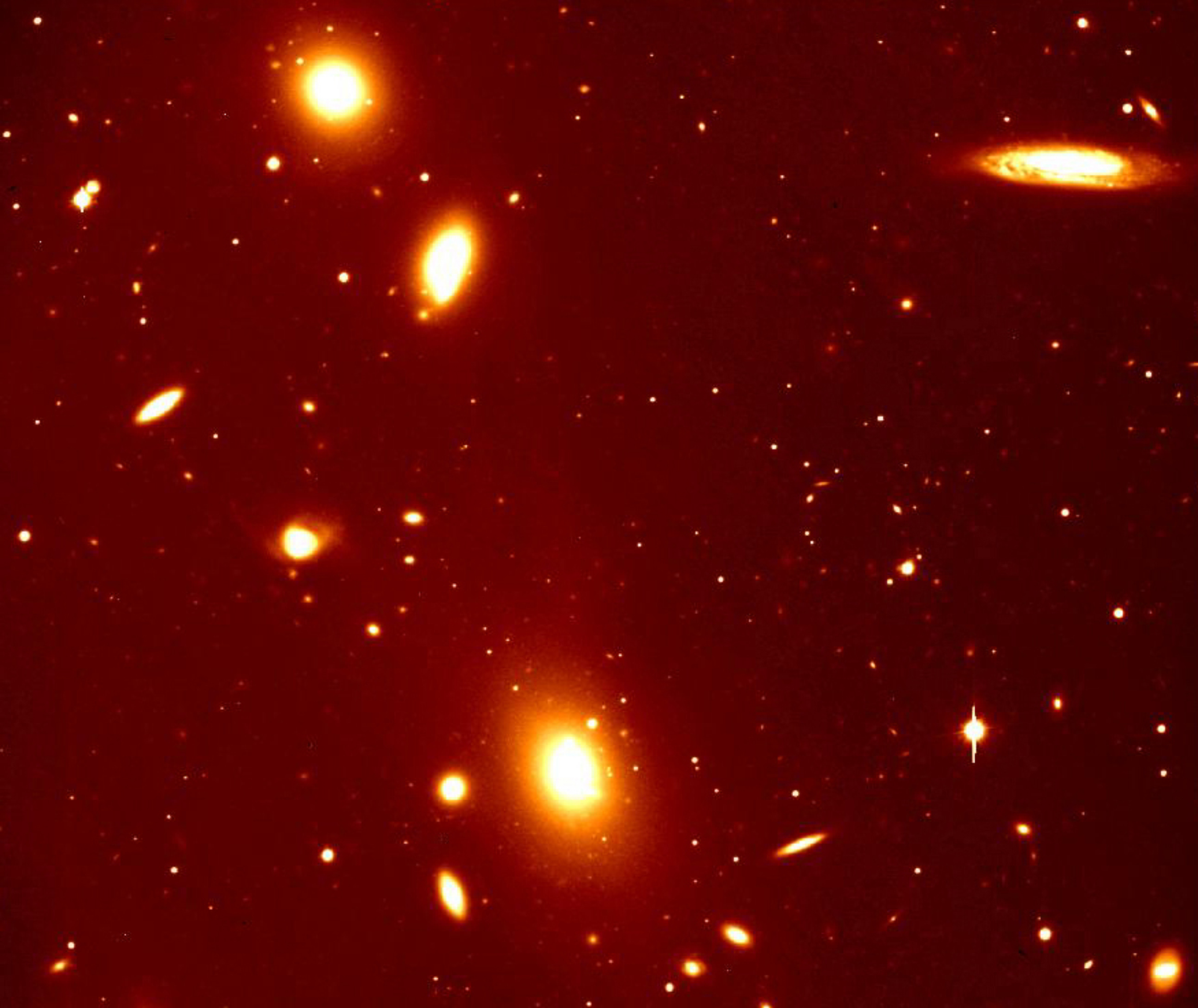 This photo of the galaxy cluster ACO 3341 is from a collection of the first images obtained with VIMOS. ACO 3341 is located at a distance of almost 500 million light years (redshift z = 0.037), comparatively nearby in cosmological terms. It contains a large number of galaxies of different sizes and brightness that is bound together by gravity. The image is in the R-band. Exposure 300 seconds, image quality 0.5 arcsec FWHM; field 7 x 7 arcmin2; North is up and East is left.